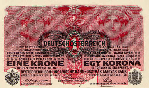 Austrian-hungarian banknote 1 Krone (1916). Overprinted in black colour "Deutschösterreich". - obverse